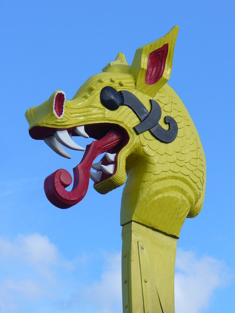 Here be Dragons! Dragon's head on the replica ship, "Hugin", said to have transported Hengist and his men to England in 449.